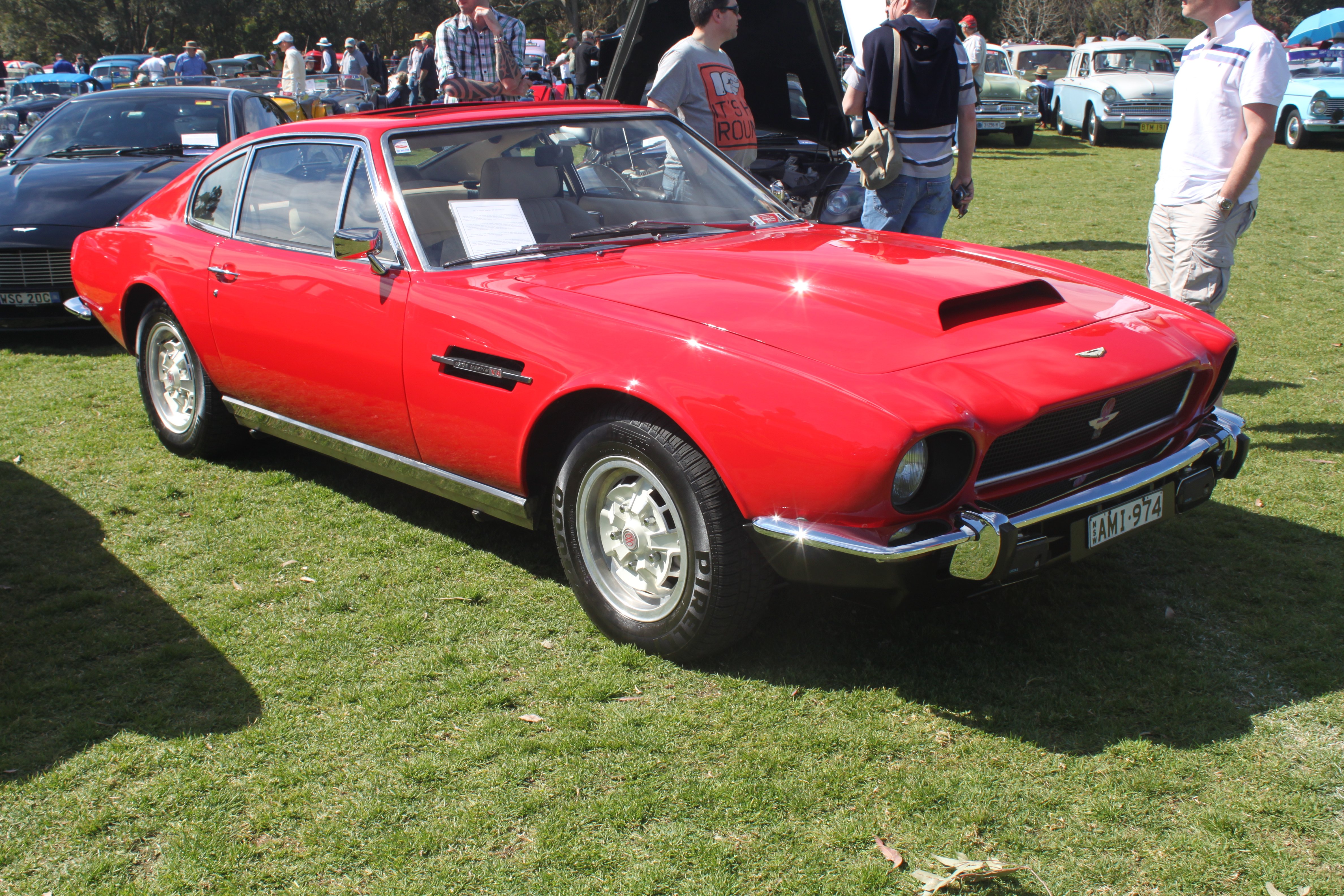 1974 Aston Martin V8 saloon